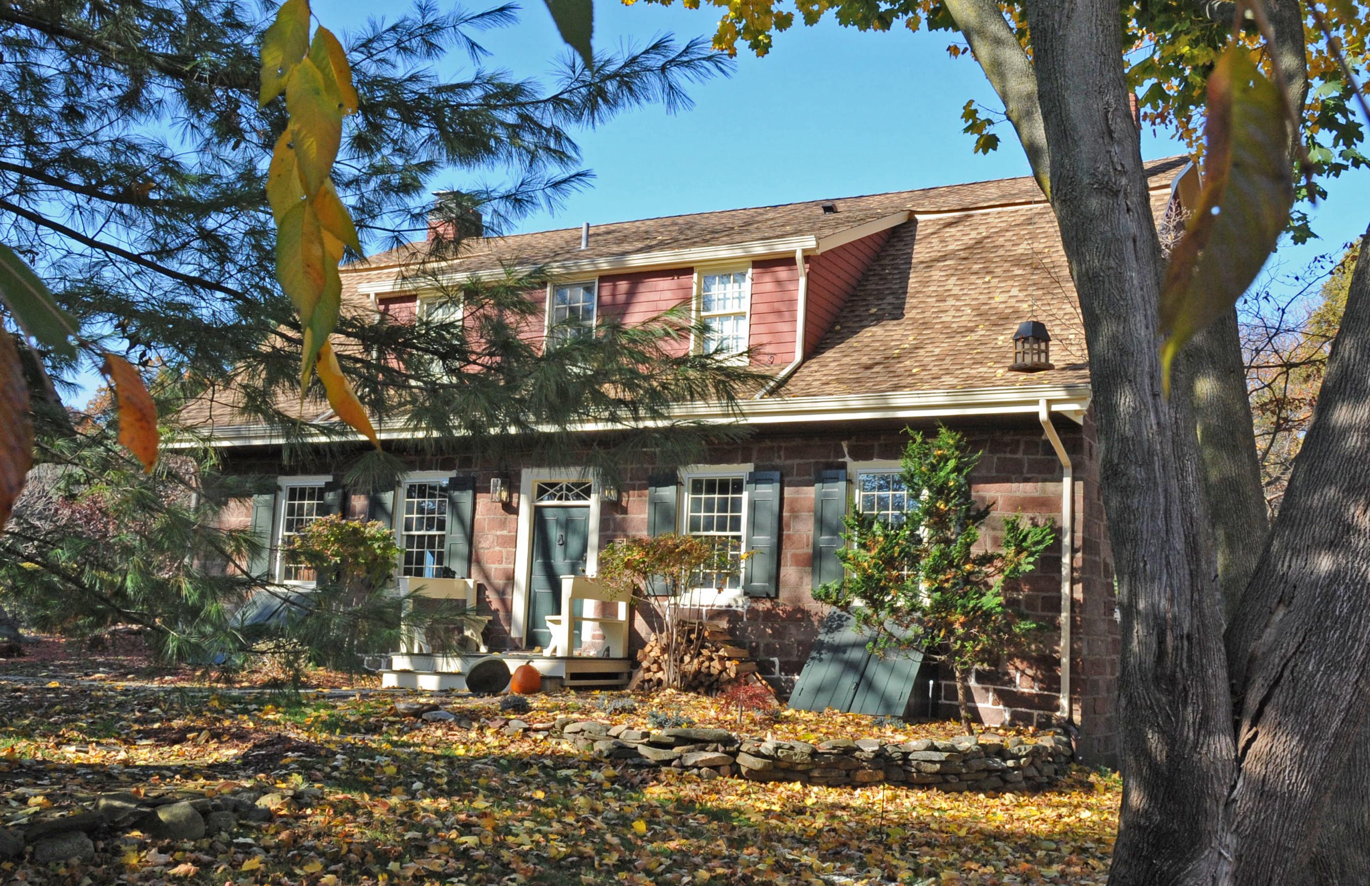 BUILT IN 1736 BY WILLIAM HOLDRUM